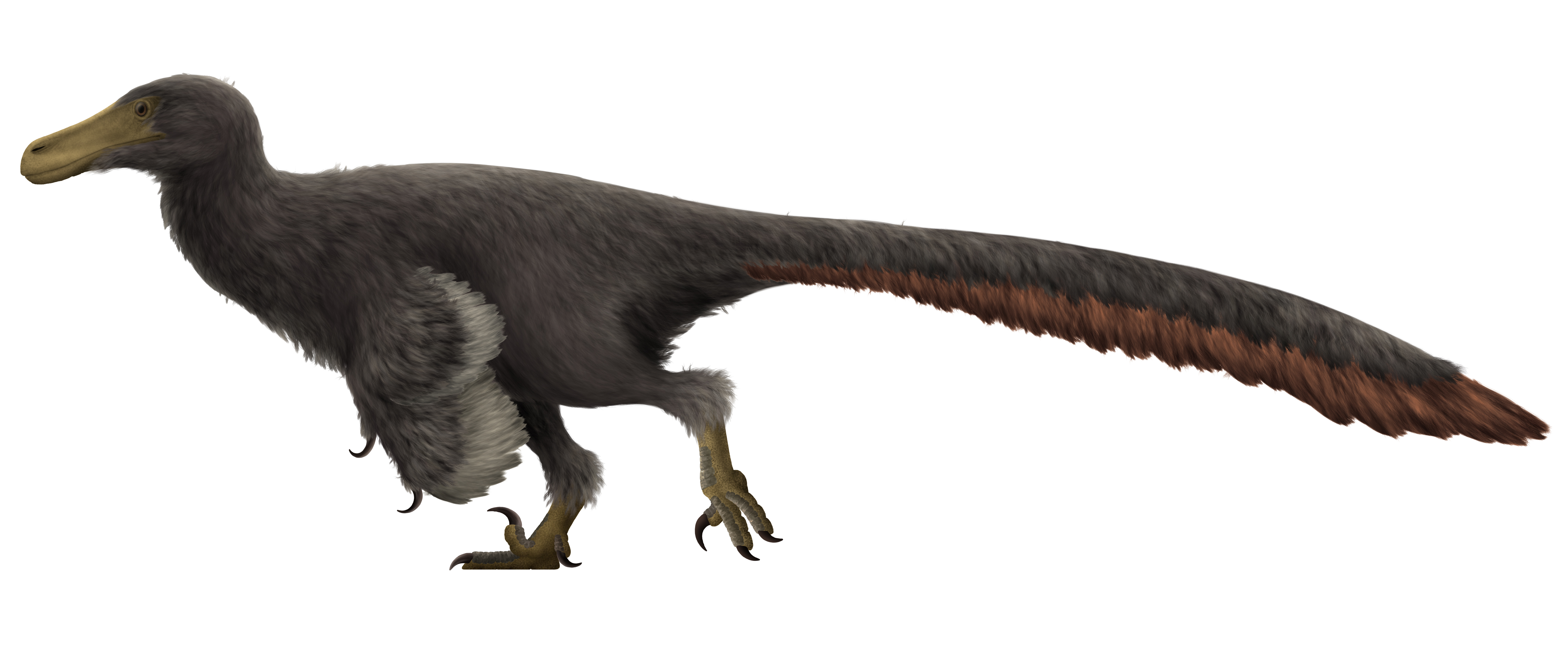 Life restoration of the Asiatic dromaeosaurid Adasaurus mongoliensis based on specimens IGM 100/20 and IGM 100/21. Colors taken from Buteo rufofuscus (Jackal buzzard).